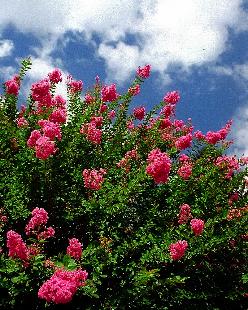 Cincinnati - Crepe Myrtle at Spring Grove Cemetery & Arboretum.